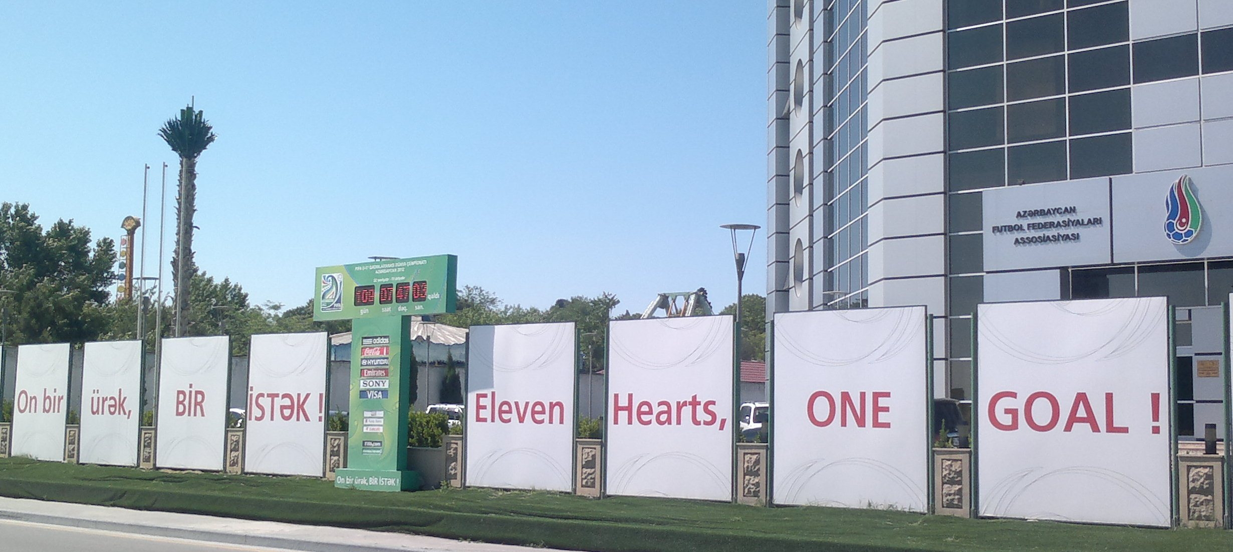 Official slogan of FIFA U-17 Women's World Cup Azerbaijan 2012 in Baku, Nobel Prospect. Building of AFFA (Association of Football Federations of Azerbaijan) in background.